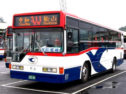 The original painting of buses of Chong-shing Group Bus Company, Ltd. in Taiwan. (Route 311 Blue Line, 262AD)